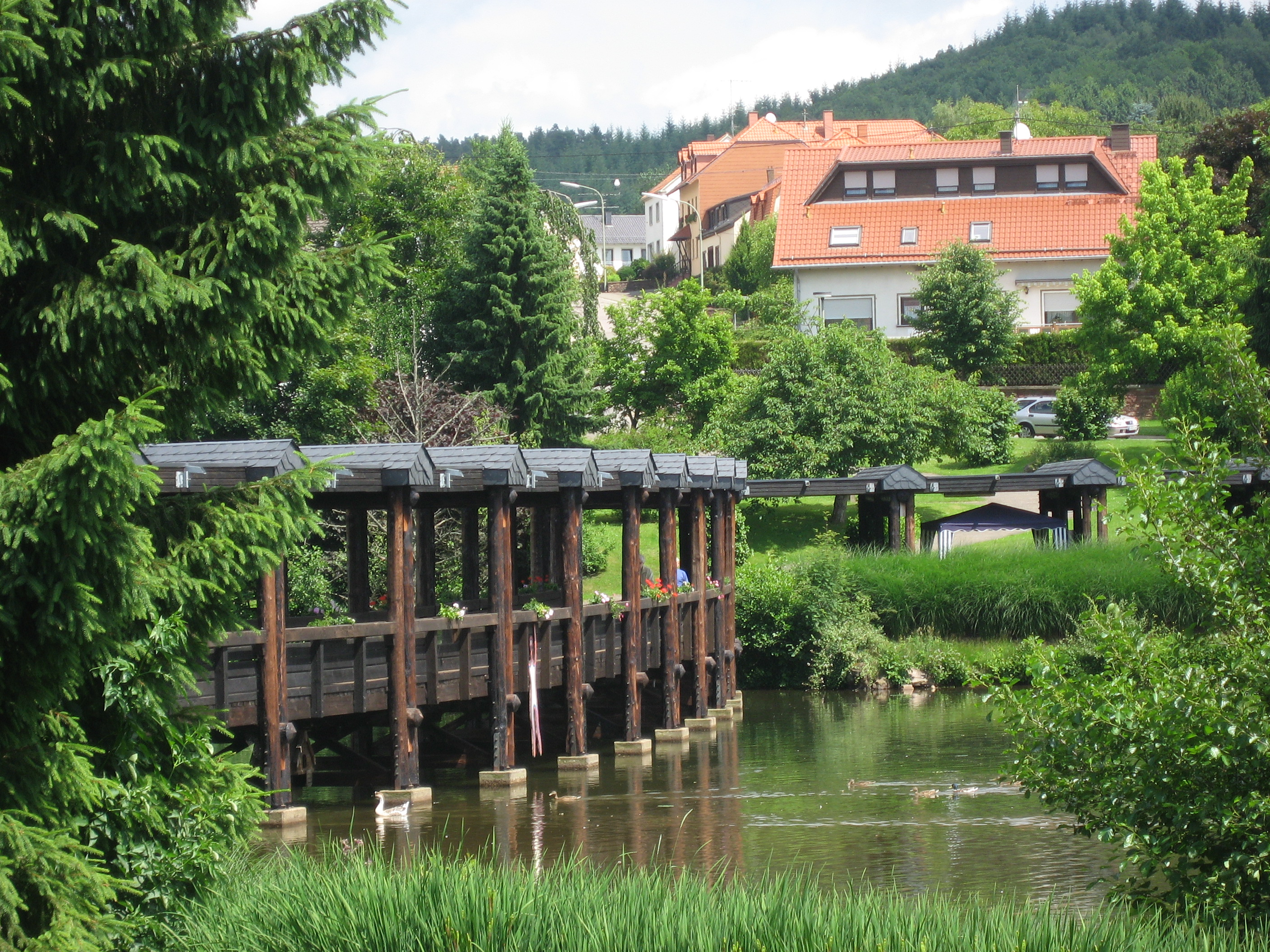 Wooden Bridge over the Kurpark Weiskirchen